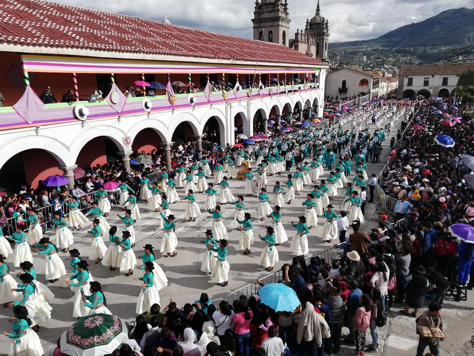 Carnavales ayacucho 2020